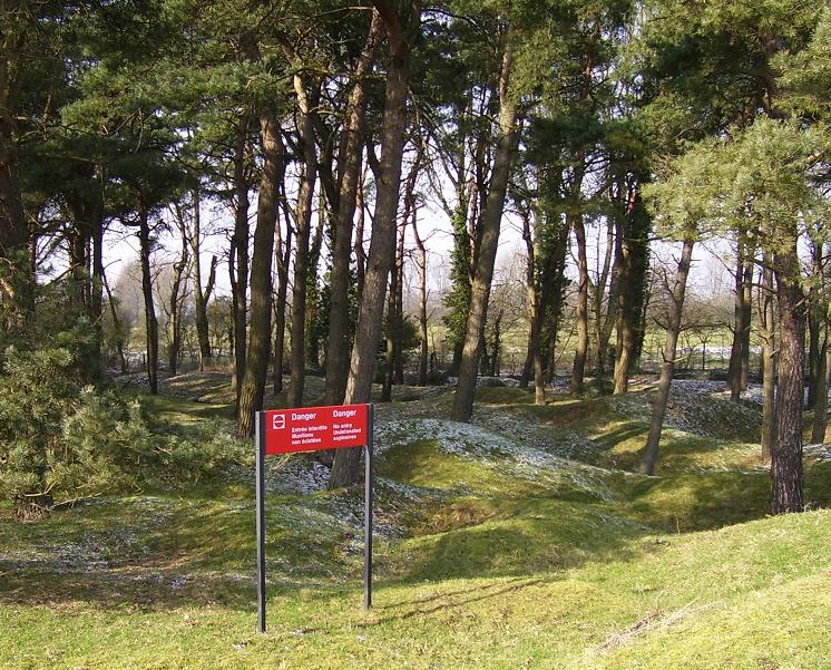 Shell holes mark the preserved battlefield of Vimy Ridge, France. The sign reads "Danger. No Entry. Undetonated Explosives"